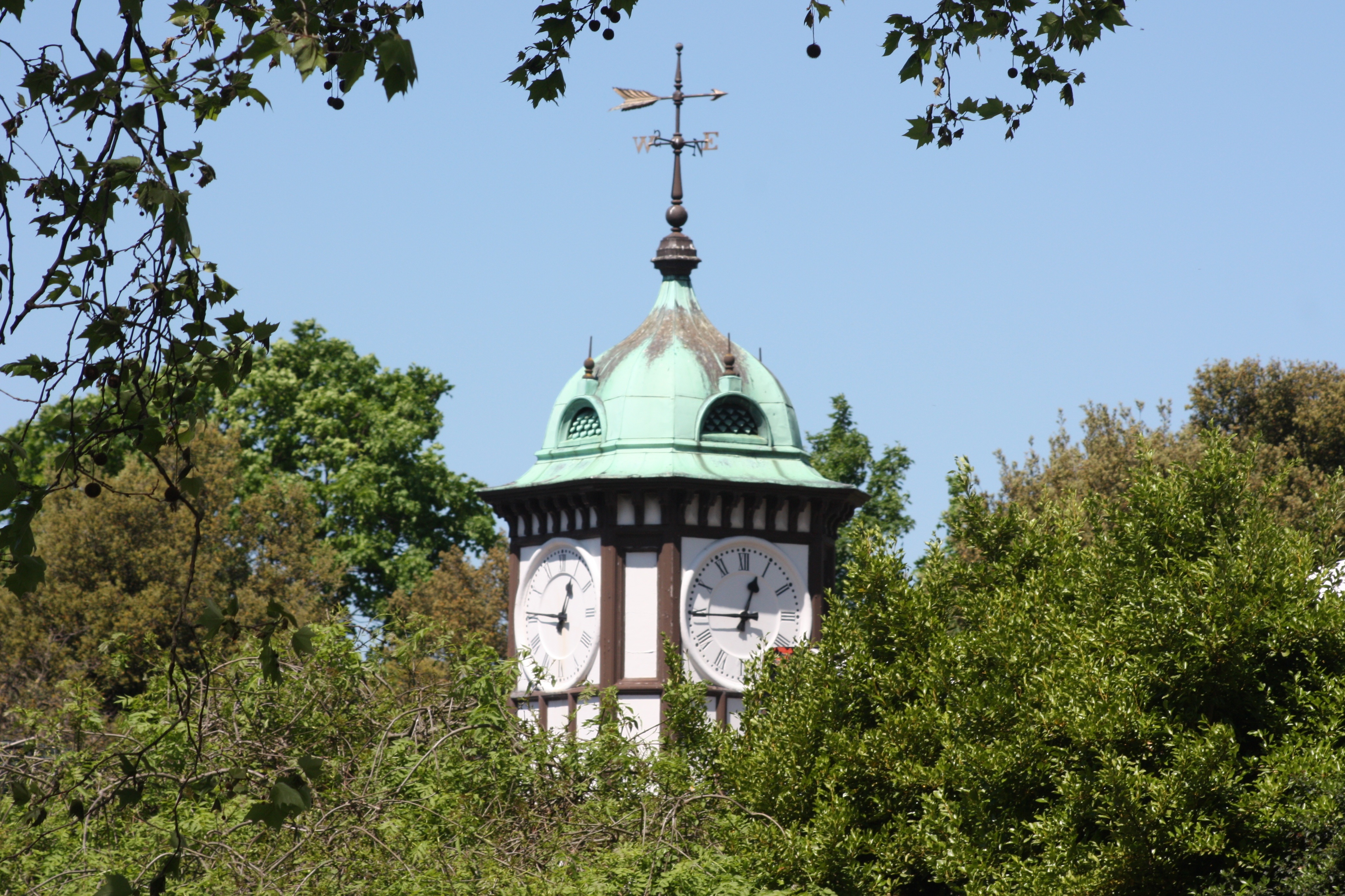 A clock tower at London Zoo, London, England.